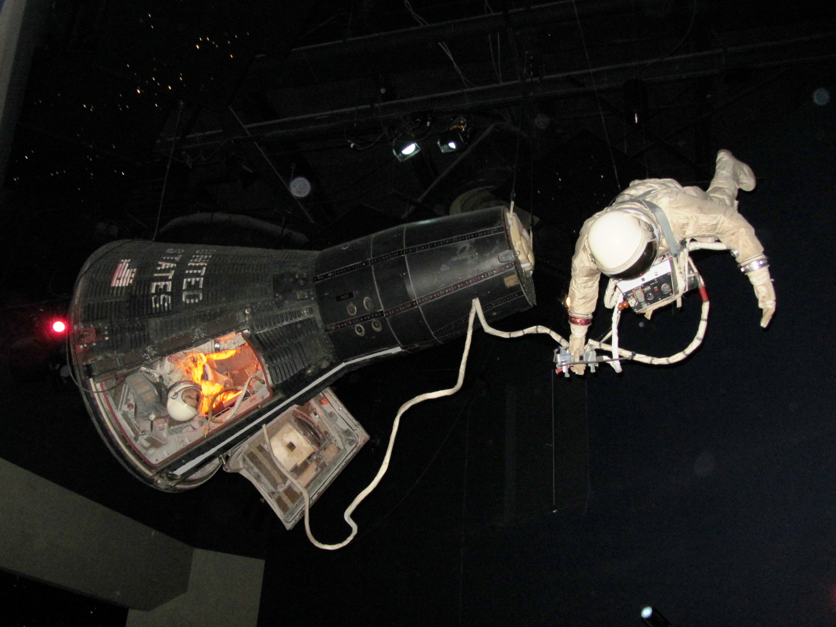 Gemini V Space Center Houston, Houston, TX